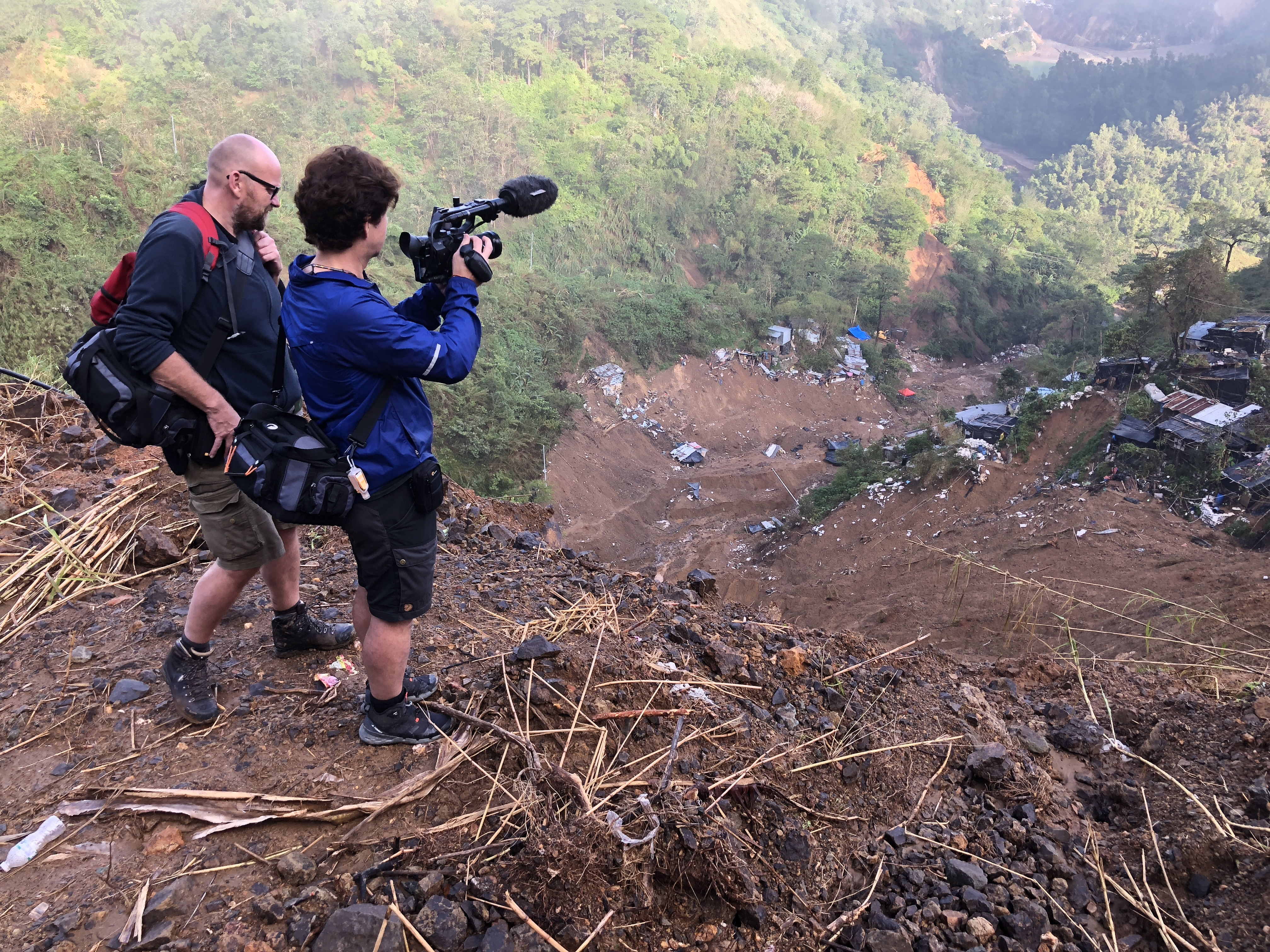 Nils & Ronny at the landslide site after typhoon Ompong